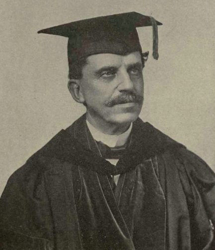 Russell Herman Conwell Title: Leaders of men; types and principles of success as illustrated in the lives of prominent Canadian and American men of the present day. Canadian department edited by R. Campbell Tibb. American department edited by Henry W. Ruoff Creator: Tibb, R. Campbell Creator: Ruoff, Henry Woldmar, 1867-1935 Publisher: Springfield, Mass. King-Richardson Date: c1904 Possible Copyright Status: NOT_IN_COPYRIGHT